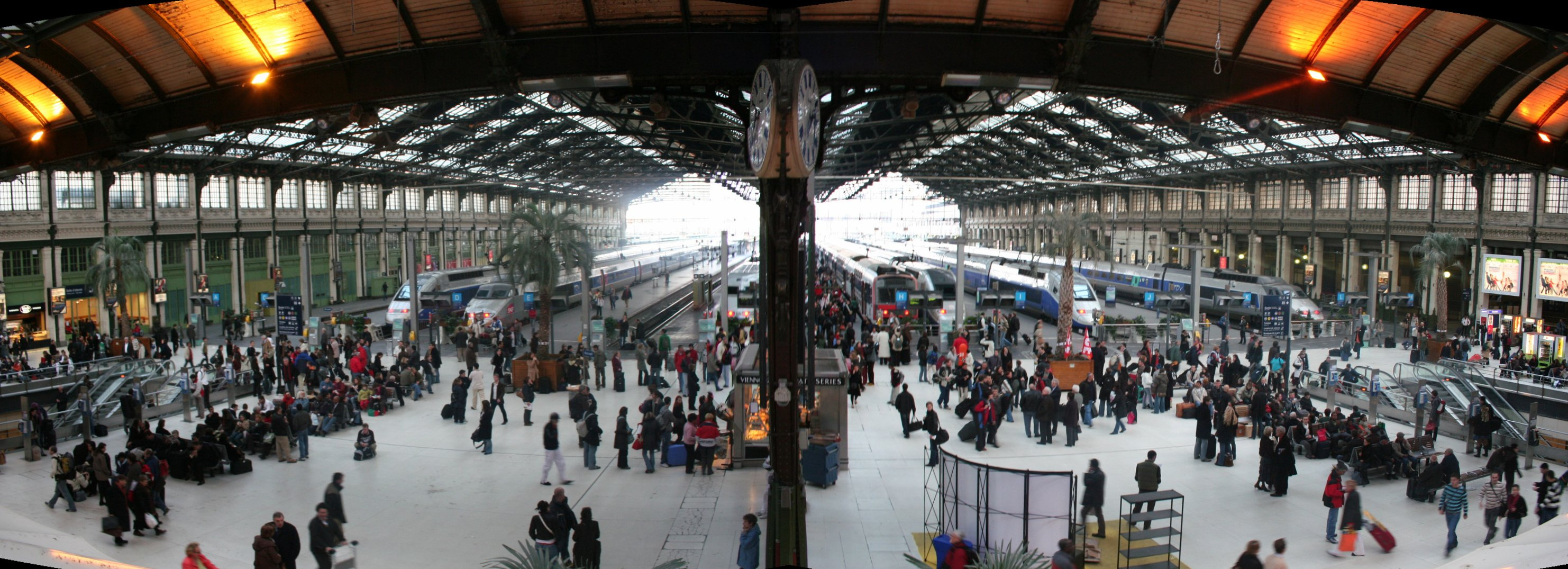 A panoramic view of the Gare de Lyon train station in Paris